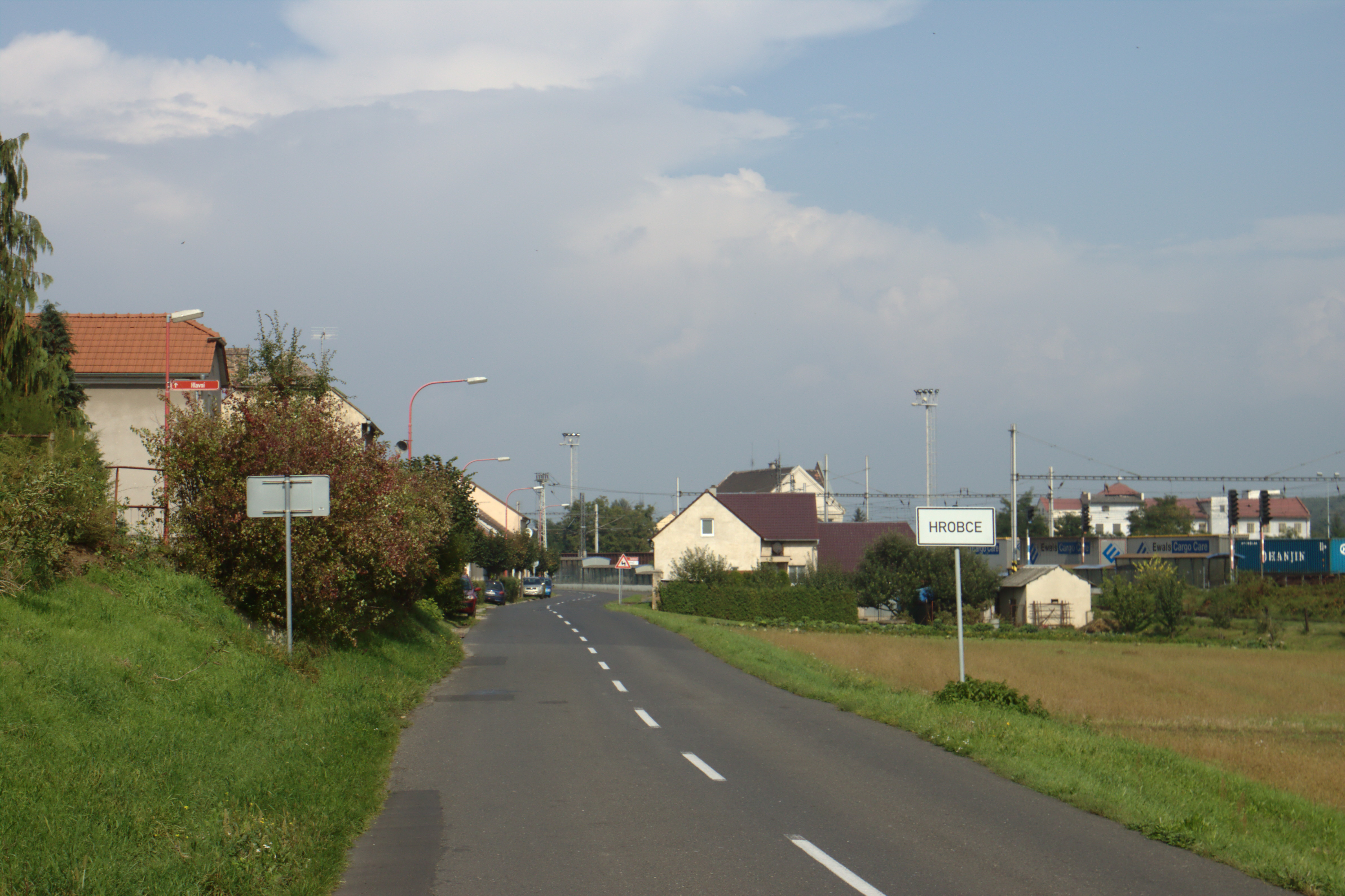 View of the village of Hrobce from south